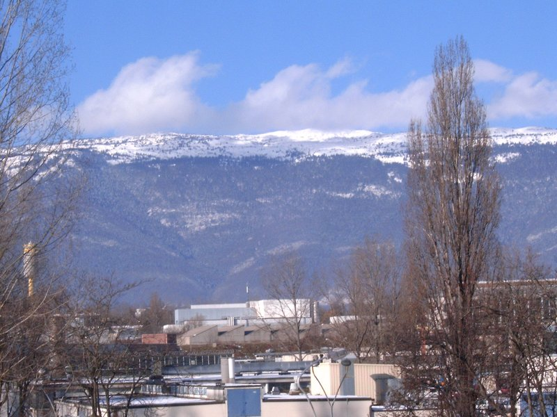 The Meyrin site of CERN with the Jura mountains. (From the hostel near A40.) Date: October 21, 2005 Creator: Arpad Horvath